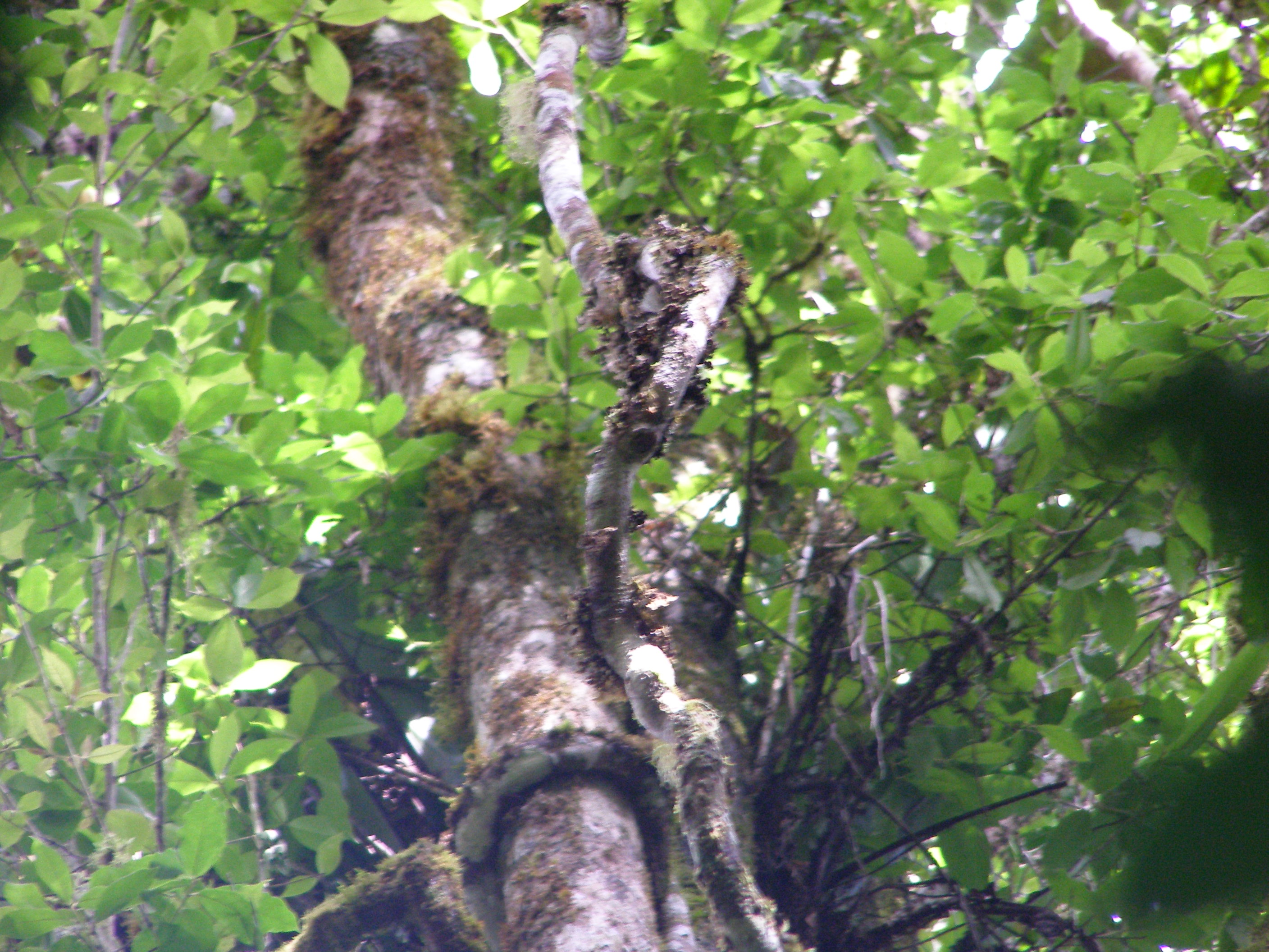 Mid-height view of arboreal habitat of Red Bellied Lemur in Andasibe-Mantadia National Park, Madagascar. i took this photo and release all rights